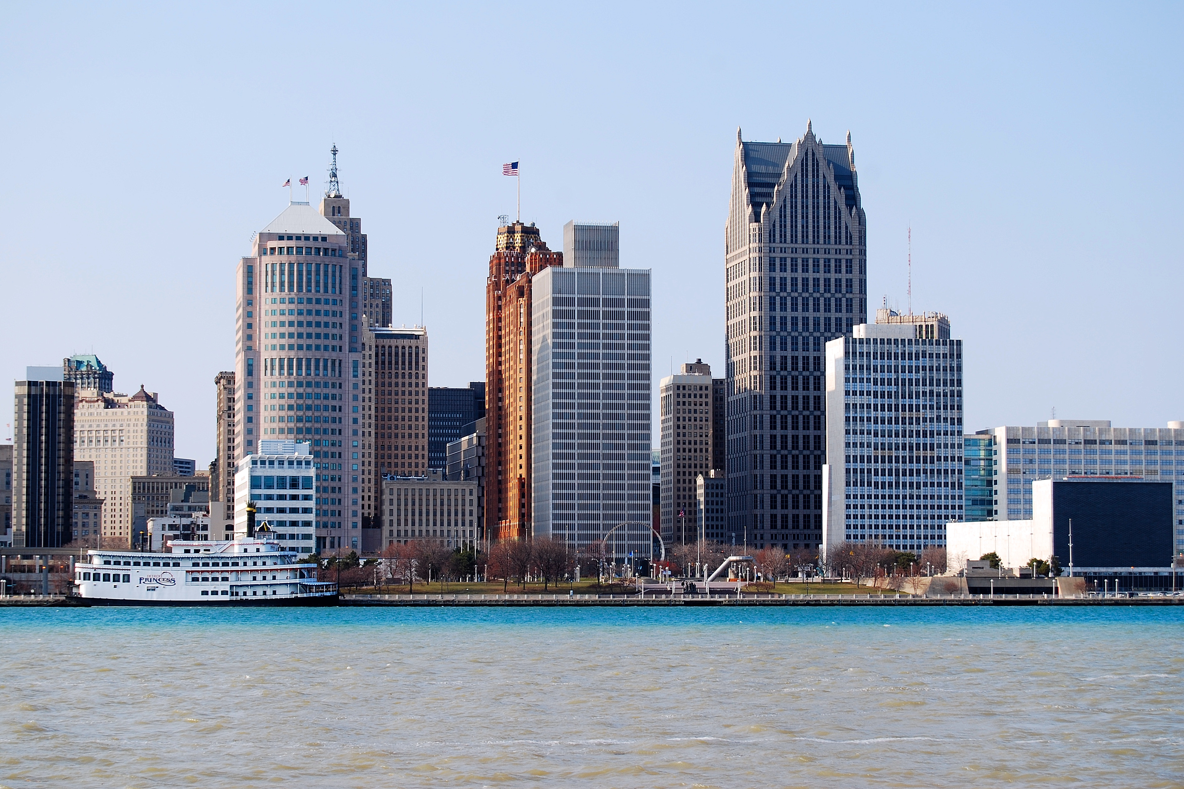 The Detroit River.